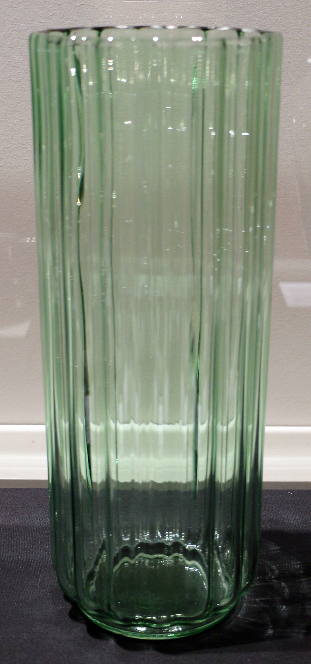 Glassware in the Milwaukee Art Museum